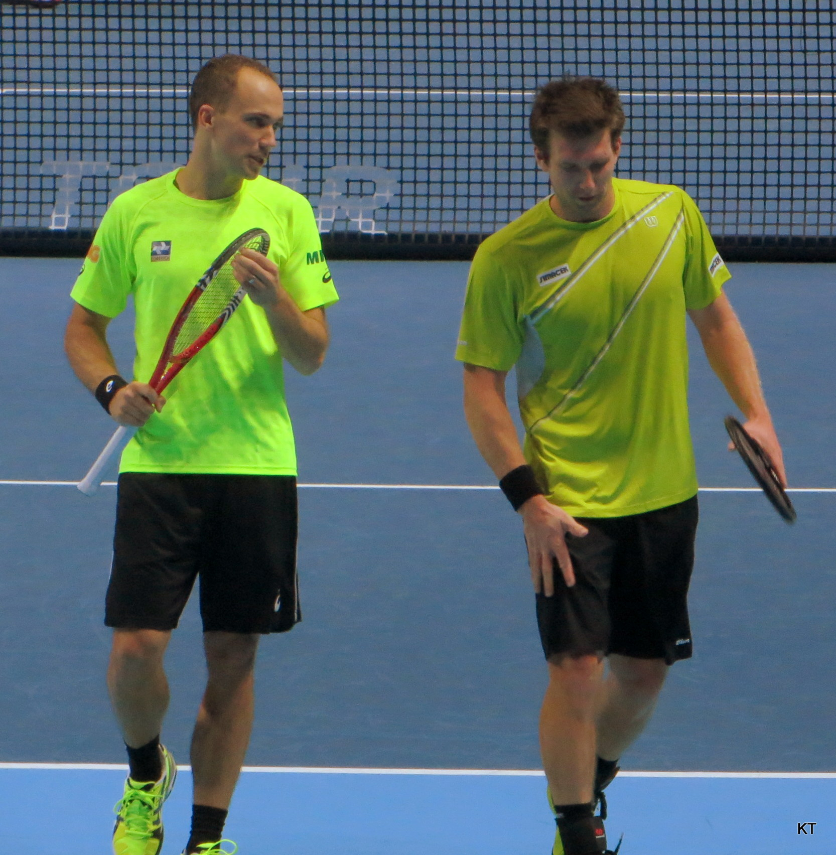 Alexander Peya and Bruno Soares at the 2013 ATP World Tour Finals